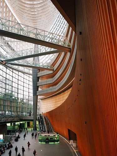 Interior of Tokyo International Forum